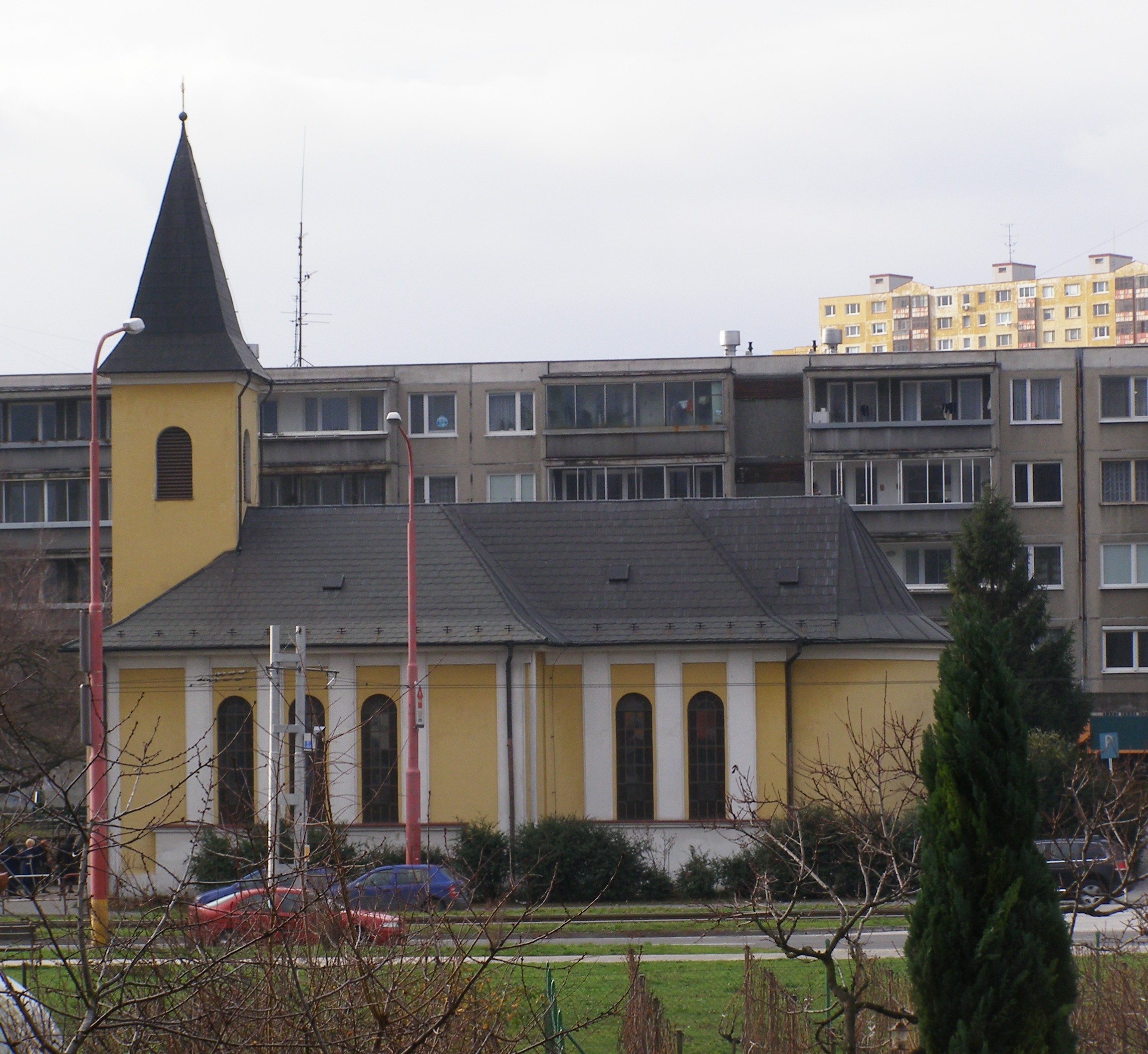 Little Church, Karlova Ves, Bratislava